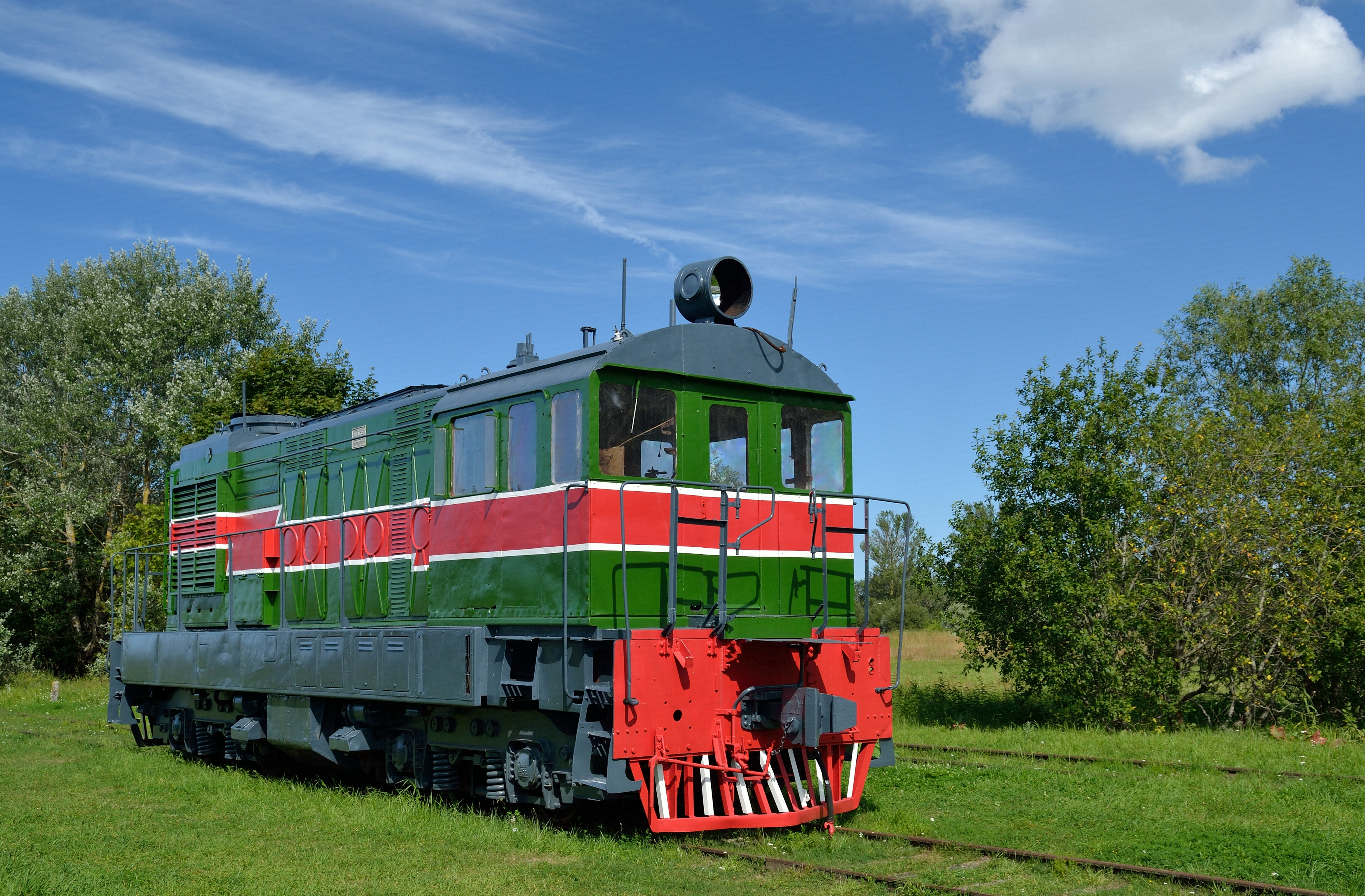 The motor engine VME 1-116 in Haapsalu. It was built in 1961 in Ganz–MÁVAG factory (Hungary) for the USSR railways.